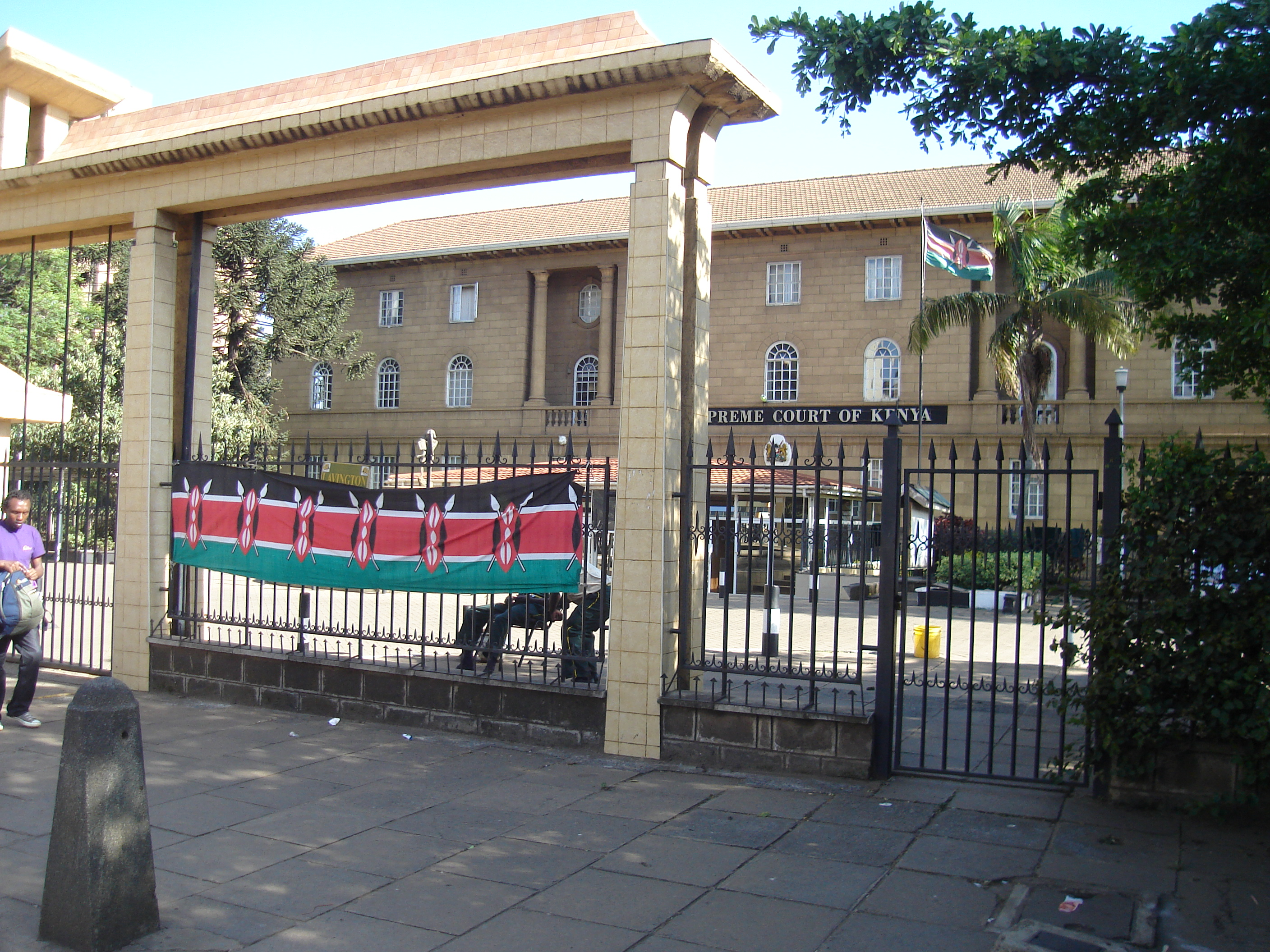 Supreme Court of Kenya in Nairobi at December 12 2011